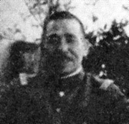 General Waichiro Sonobe (1883-1963)